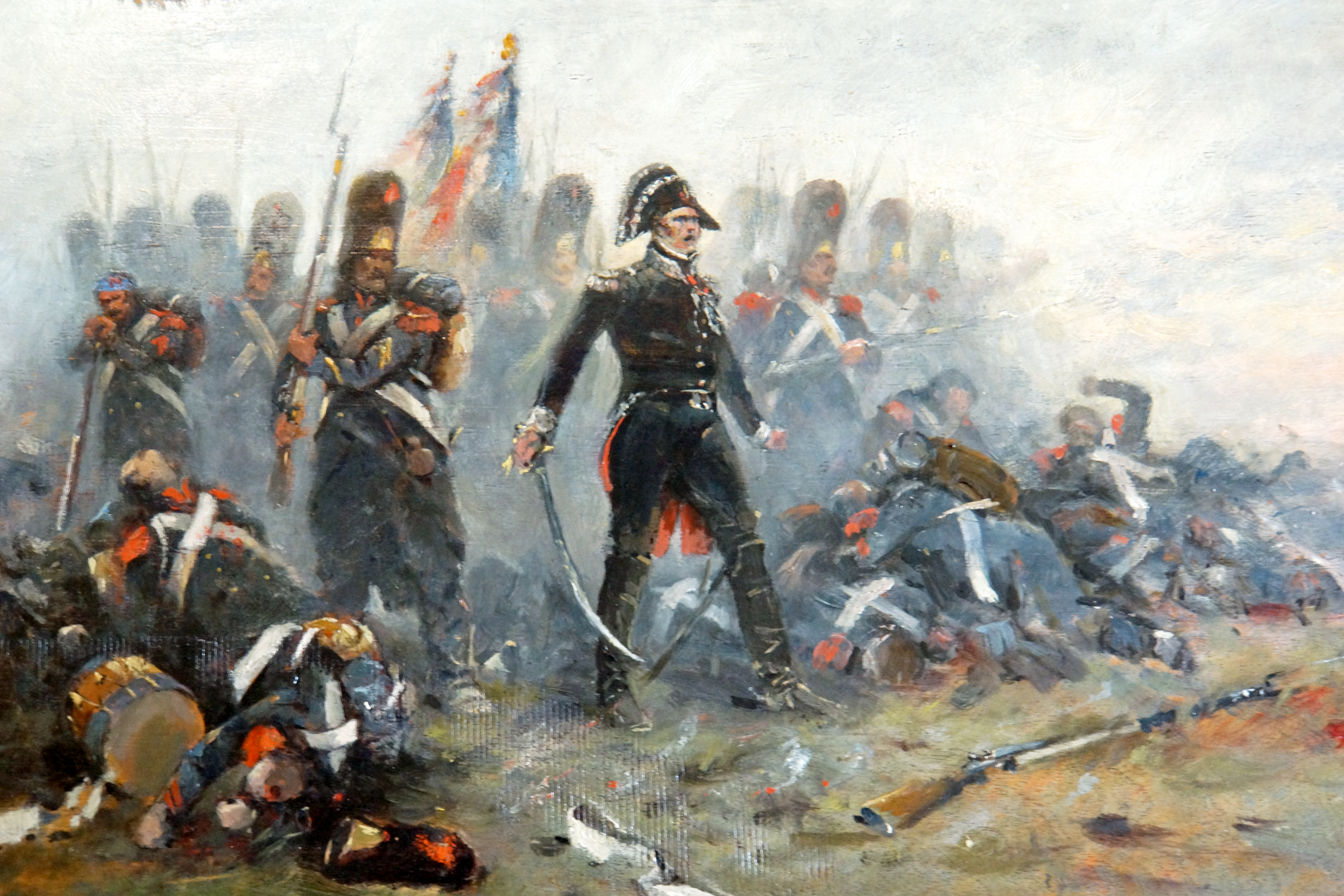 PLEASE, NO invitations or self promotions, THEY WILL BE DELETED. My photos are FREE to use, just give me credit and it would be nice if you let me know, thanks. General Cambronne's last square. He became major of the Imperial Guard in 1814, and accompanied Napoléon into exile to the island of Elba, where he was a military commander. He then returned with Napoléon to France on 1 March 1815 for the Hundred Days, capturing the fortress of Sisteron (5 March), and was made a Count by Napoléon when they arrived at Paris. Cambronne was seriously wounded at the Battle of Waterloo and was taken prisoner by the British.